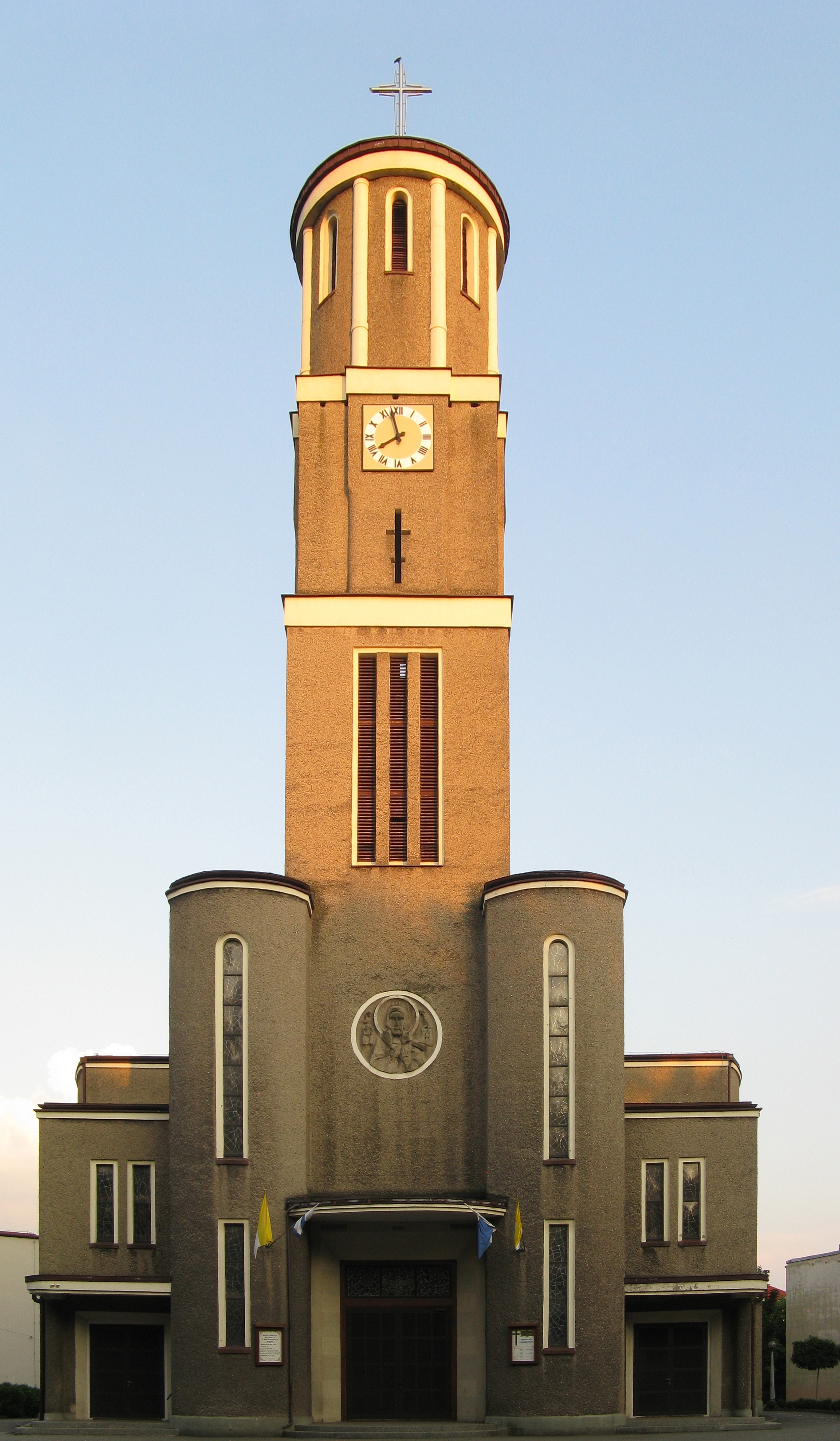 St. Joseph church in Świętochłowice.